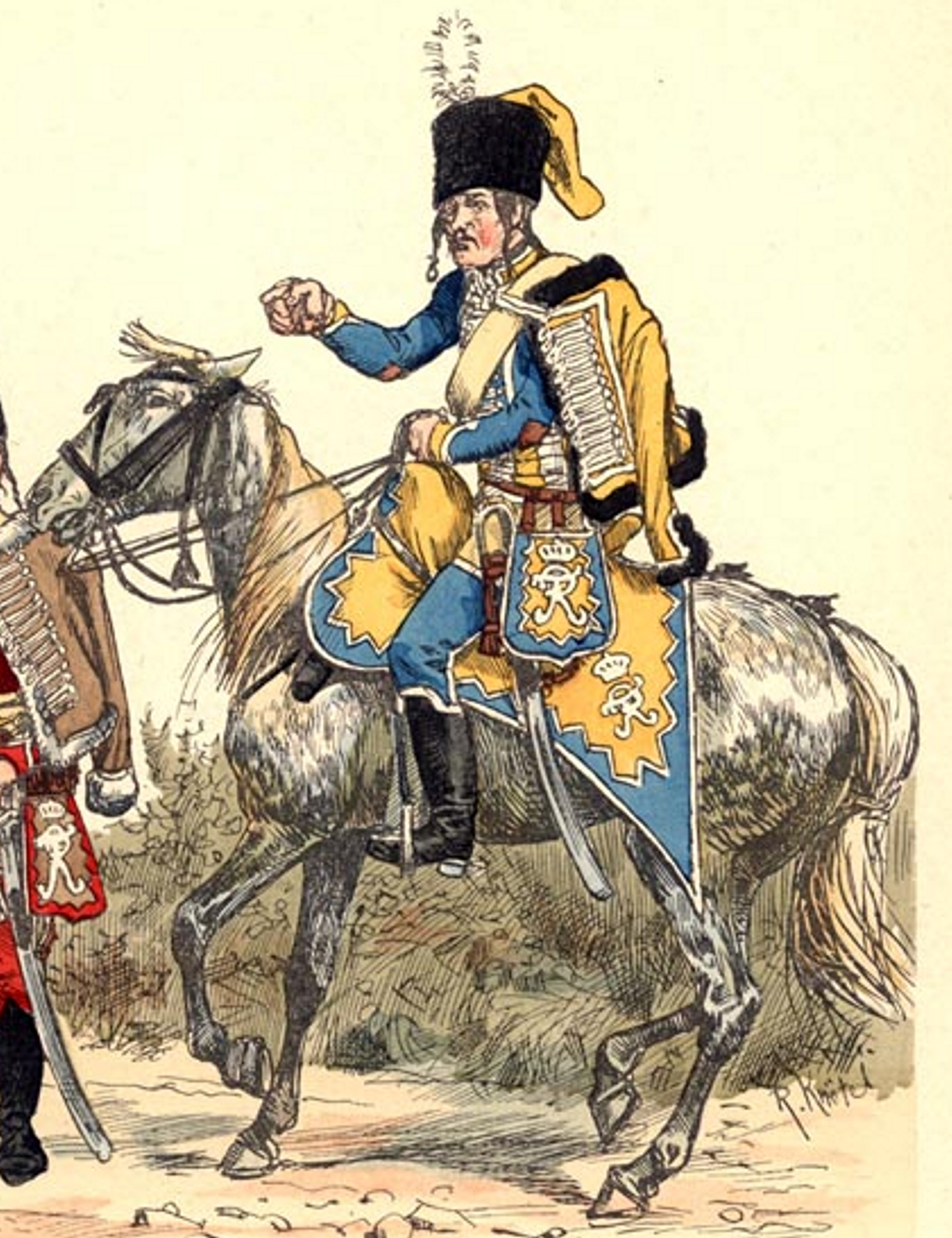 Hussar of the Magdeburg Hussar Commando (1763)